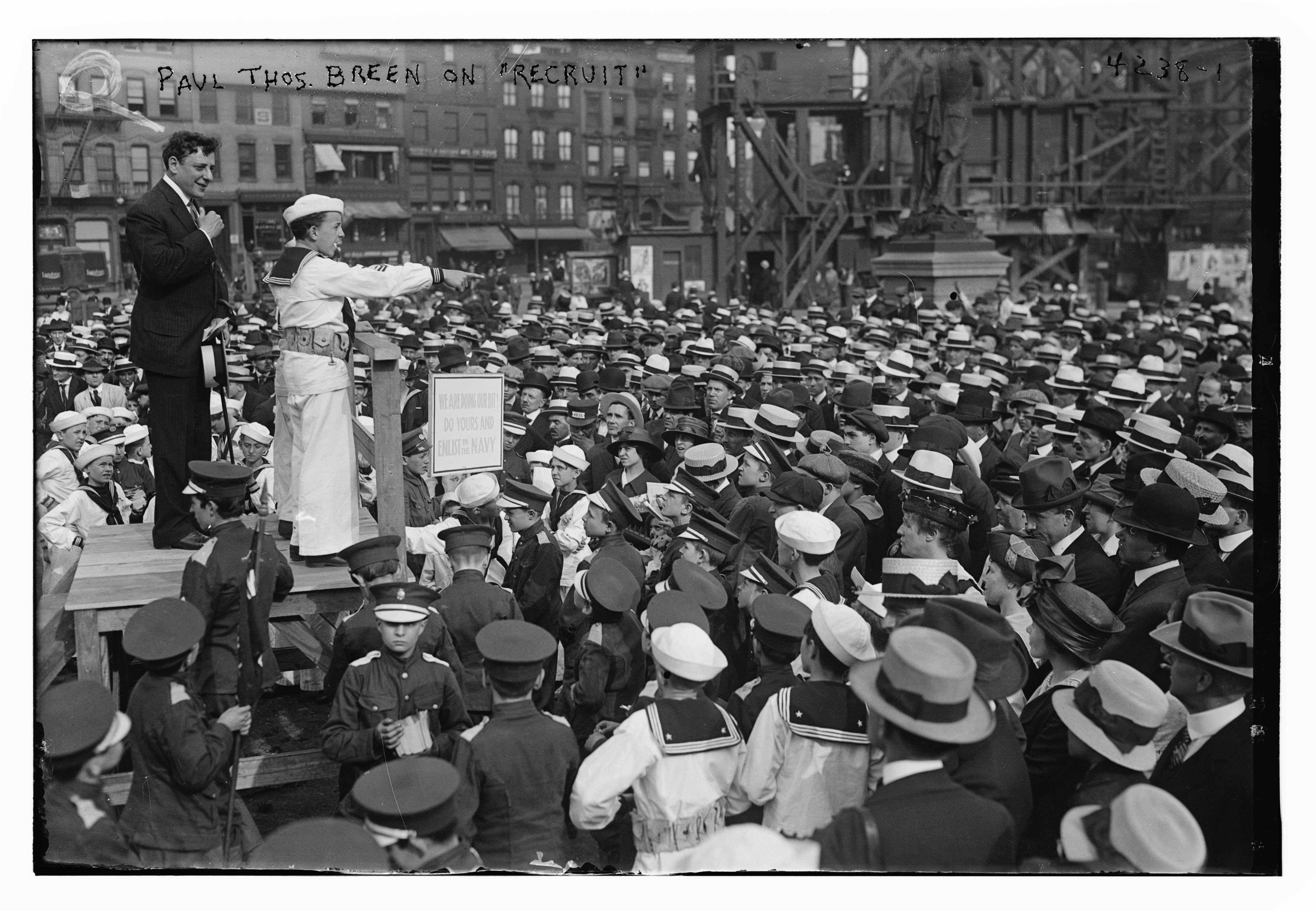 Bain News Service,, publisher. Paul Thos. Breen on RECRUIT [between ca. 1915 and ca. 1920] 1 negative : glass ; 5 x 7 in. or smaller. Notes: Title from unverified data provided by the Bain News Service on the negatives or caption cards. Forms part of: George Grantham Bain Collection (Library of Congress). Format: Glass negatives. Repository: Library of Congress, Prints and Photographs Division, Washington, D.C. 20540 USA, General information about the Bain Collection is available at Higher resolution image is available (Persistent URL): Call Number: LC-B2- 4238-1